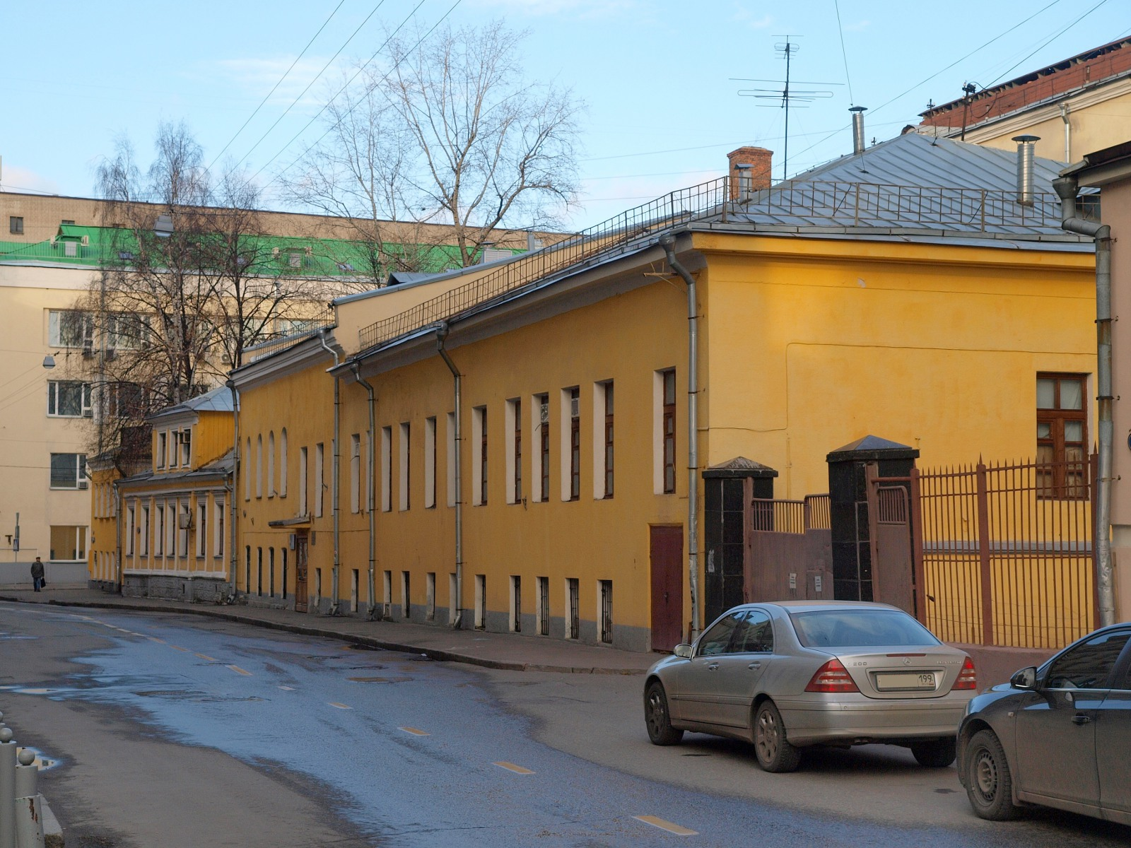 Staromonetny Lane, Moscow.